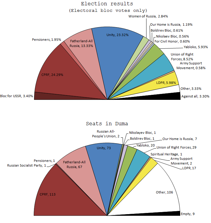 Russian Legislative Election 1999, party colors are arbitrary, partly locations are arbitrary